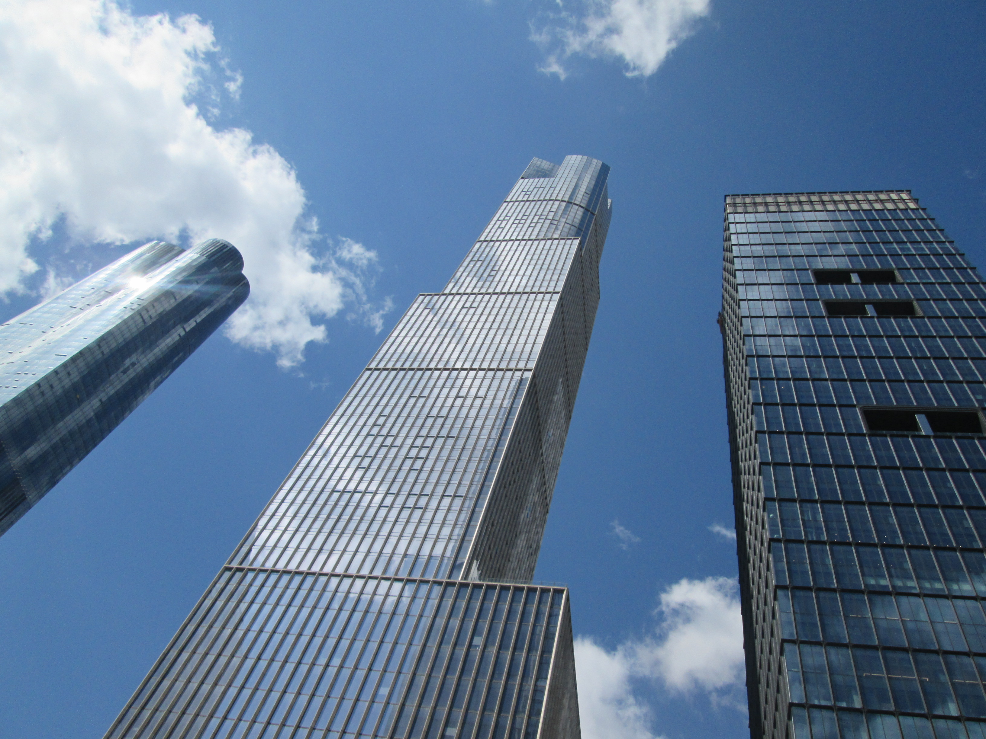 The Hudson Yards development in New York City in March 2019; looking up from 33rd Street at 15 (left), 35 (center), and 55 (right) Hudson Yards.